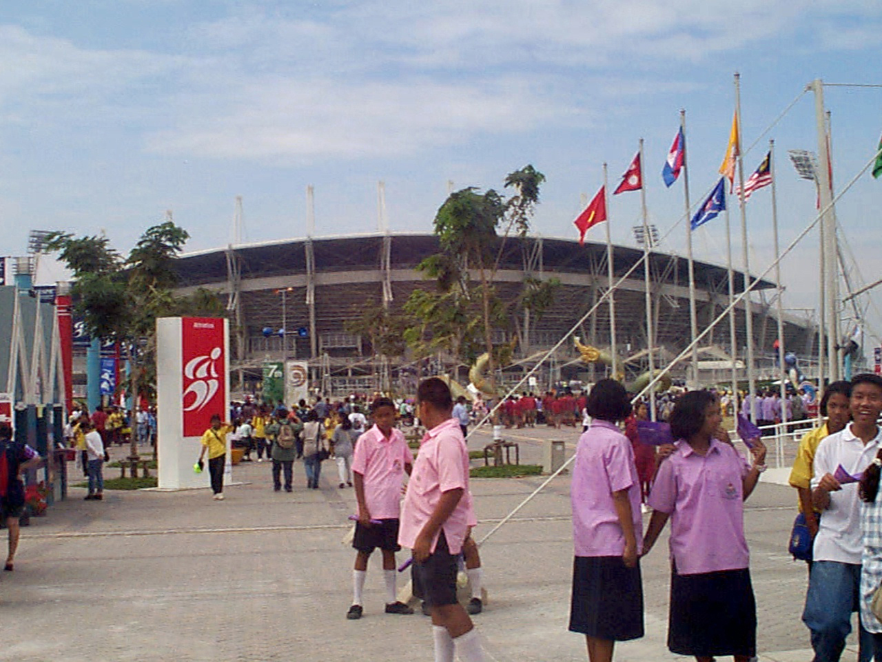 Bangkok FESPIC Stadium Exterior